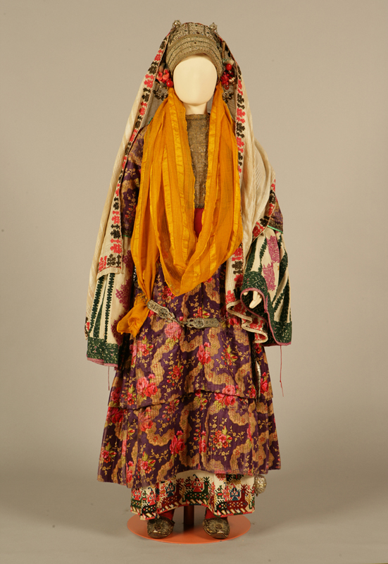 Traditional female costume of Astypalaia